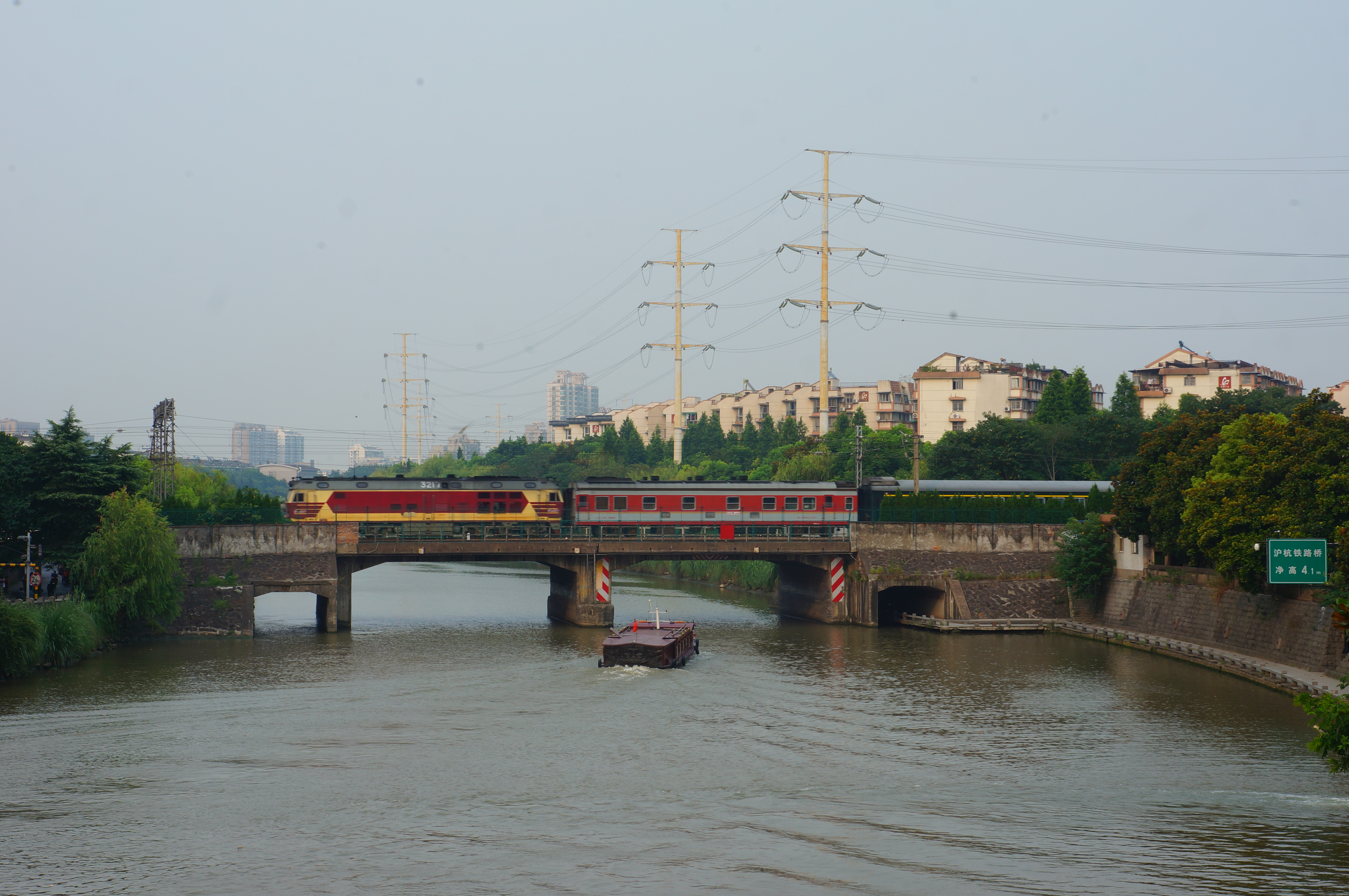 201607 K1220 over the grand canal in Hangzhou